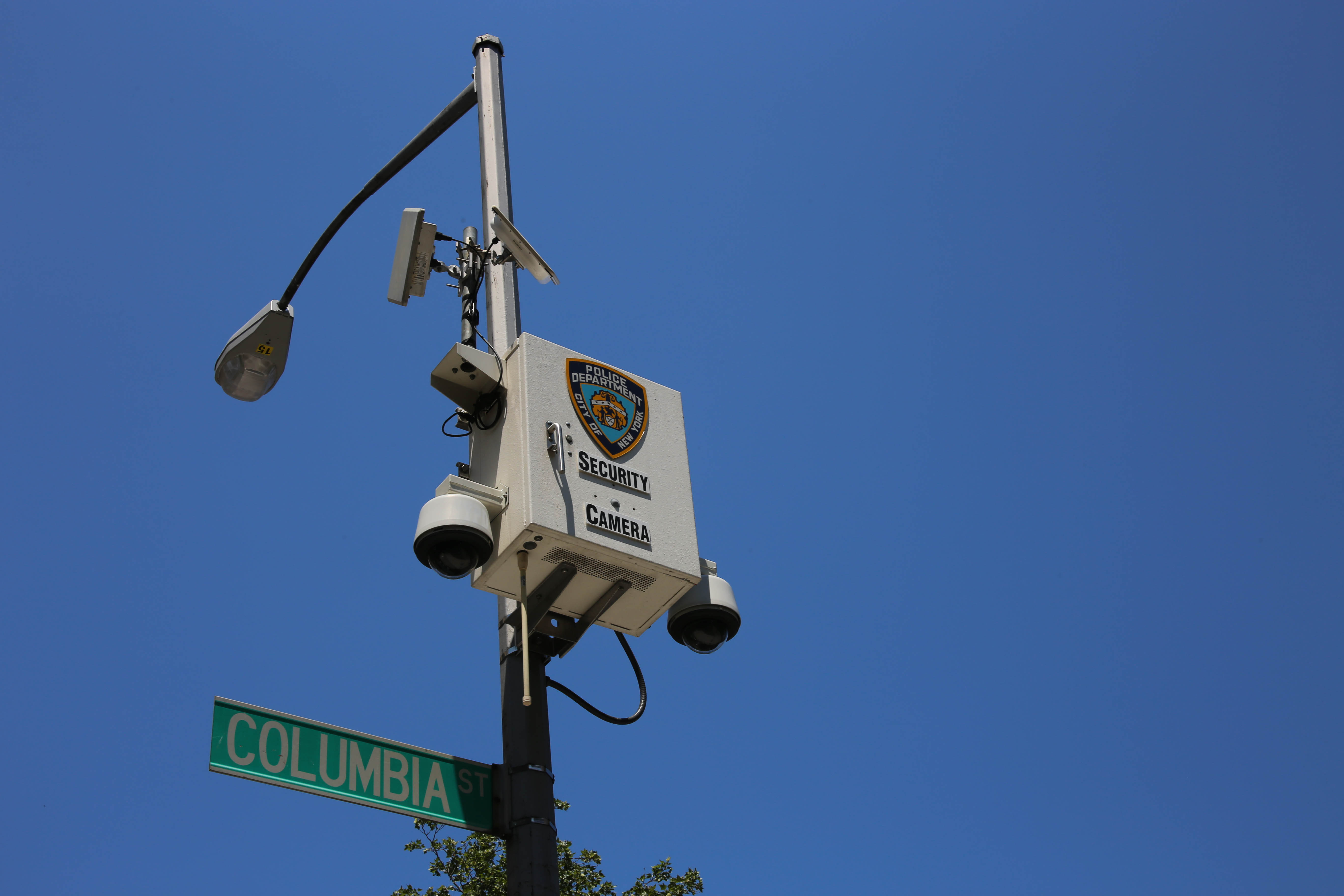 NYPD Security Camera